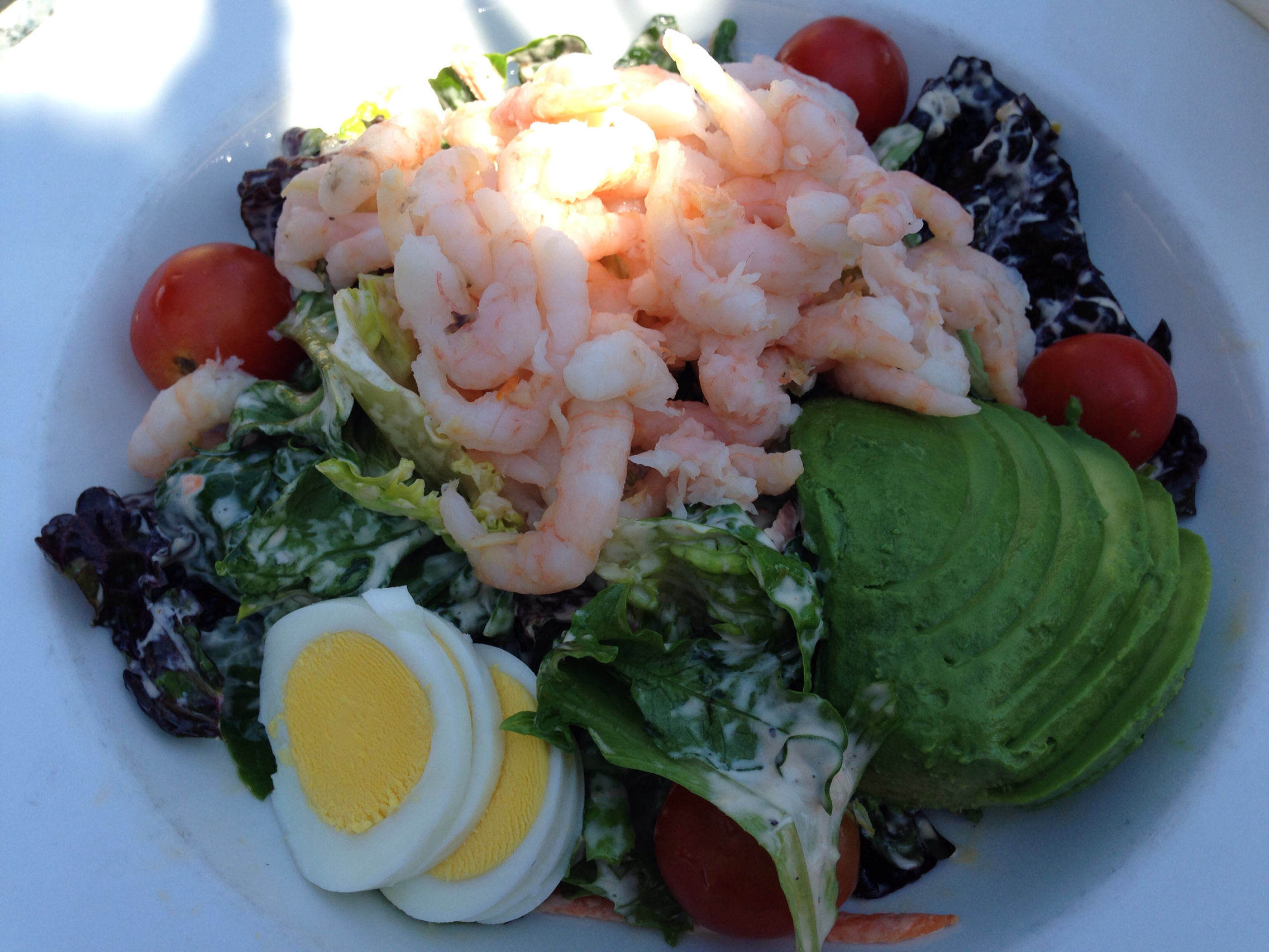 Shrimp Louie at The Ramp in China Basin